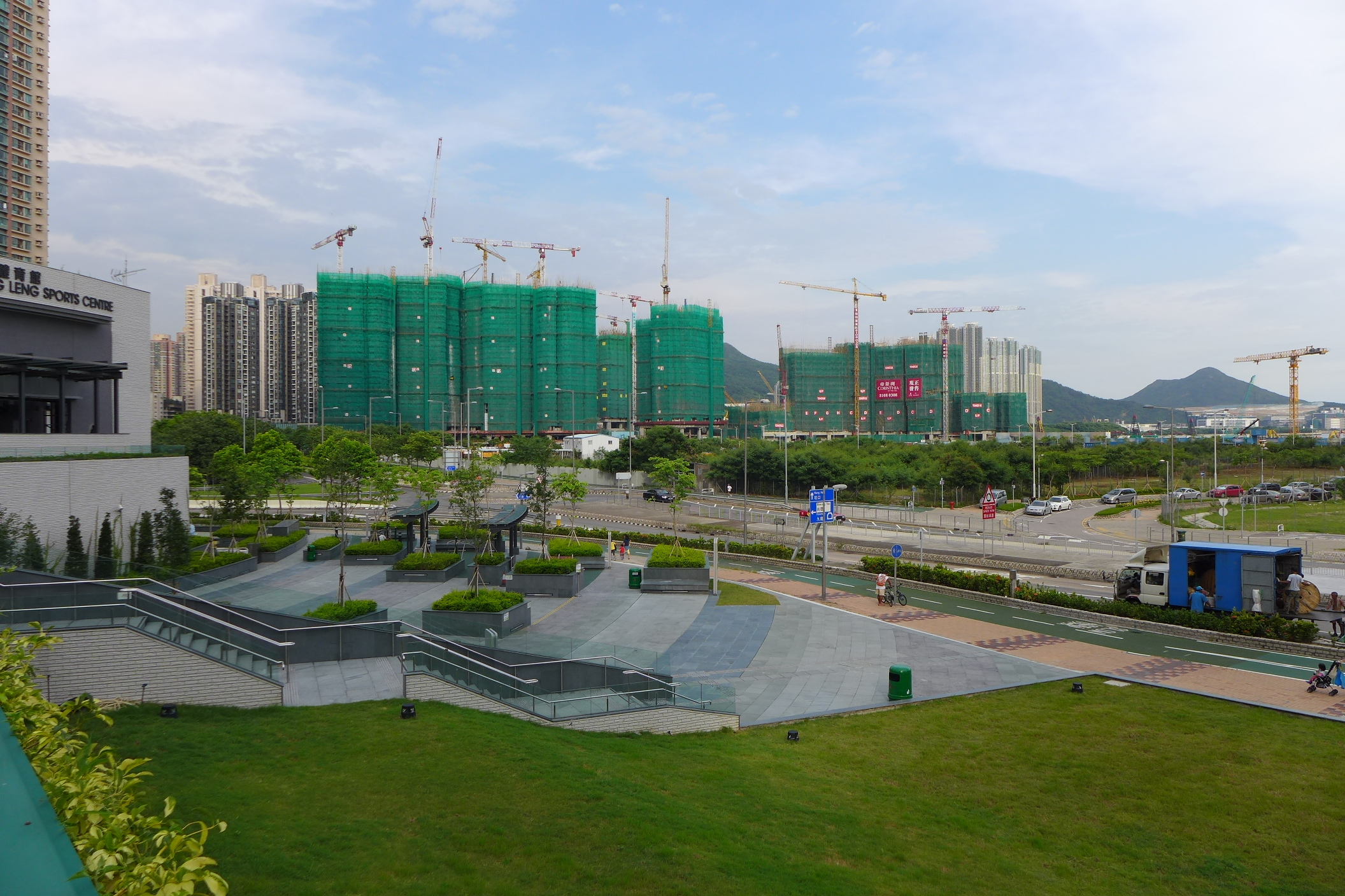 Tseung Kwan O South Overview